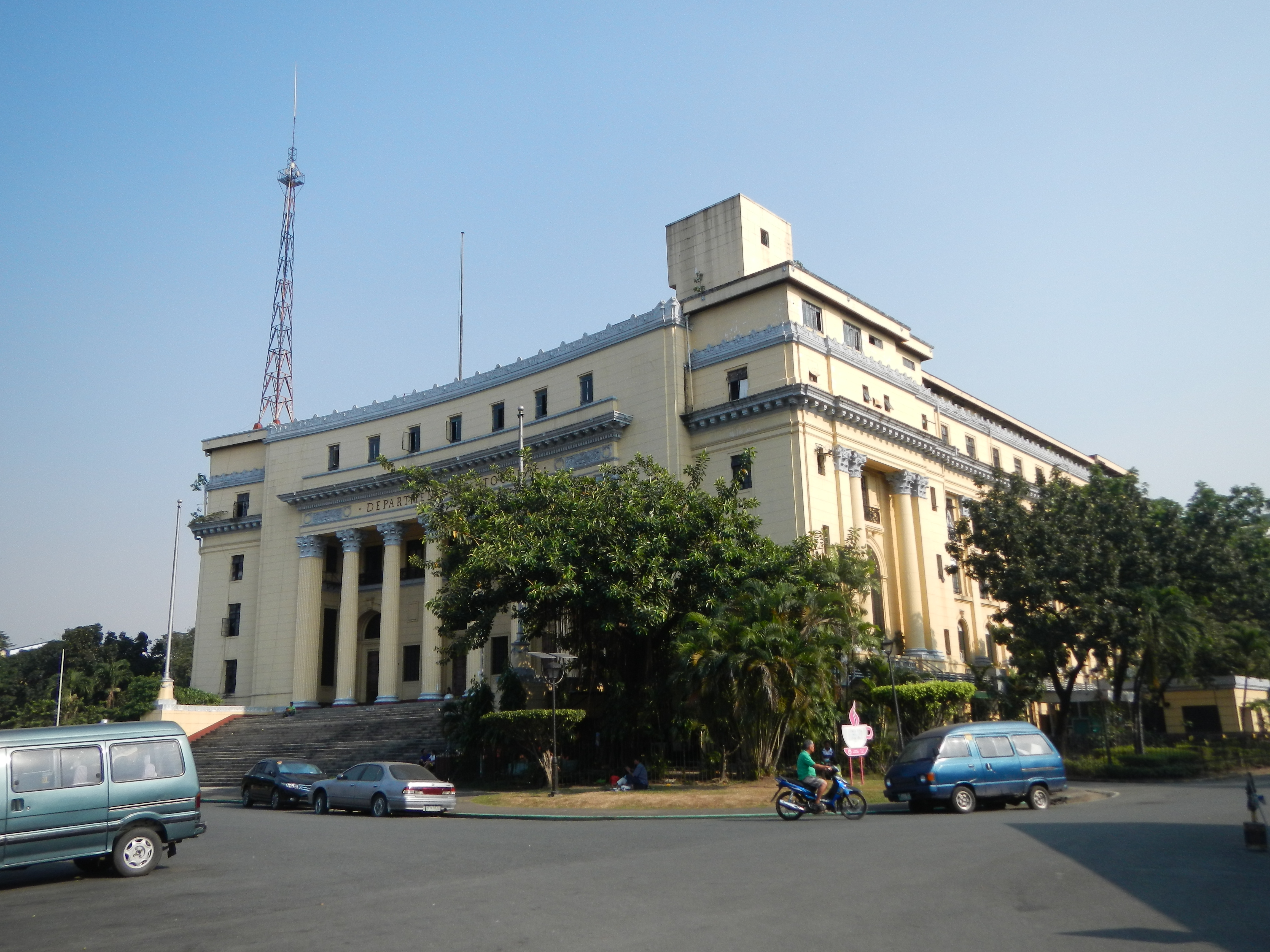 Upload Wizard photos of -- (general description of landmarks, town, church) - Rizal Park[1] also Luneta Park or colloquially Luneta, is an historical urban park located along Roxas Boulevard, [2] City of Manila, Philippines, adjacent to the old walled city of Intramuros. [3] - the Statue of the Sentinel of Freedom February 5, 2004 sculptor is Juan Sajid Imao - [4] - 30-foot bronze statue of Lapu-Lapu, at the Teodoro F. Valencia Circle, Rizal Park in ManilaLapu-Lapu fl. 1521 was a ruler of Mactan, an island in the Visayas, Philippines, who is known as the first native of the archipelago to have resisted Spanish colonization - List of public art in Metro Manila [5] - the Department of Tourism (Philippines)[6] old building which is presently under the National Museum of the Philippines [7] Padre Burgos Avenue, [8] Rizal Park, Ermita, Manila- now transferred to its new Office at 351 Senator Gil Puyat Avenue Makati City, Philippines, 1200.